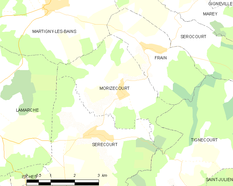 Map of French municipality Morizécourt